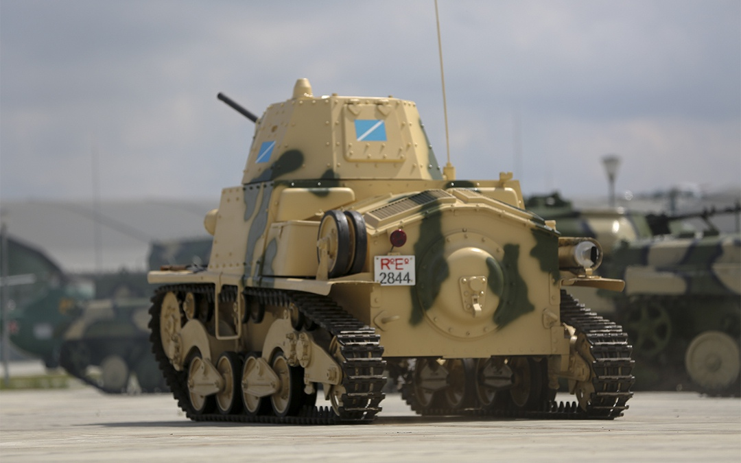 Italian Fiat L6/40 light tank.